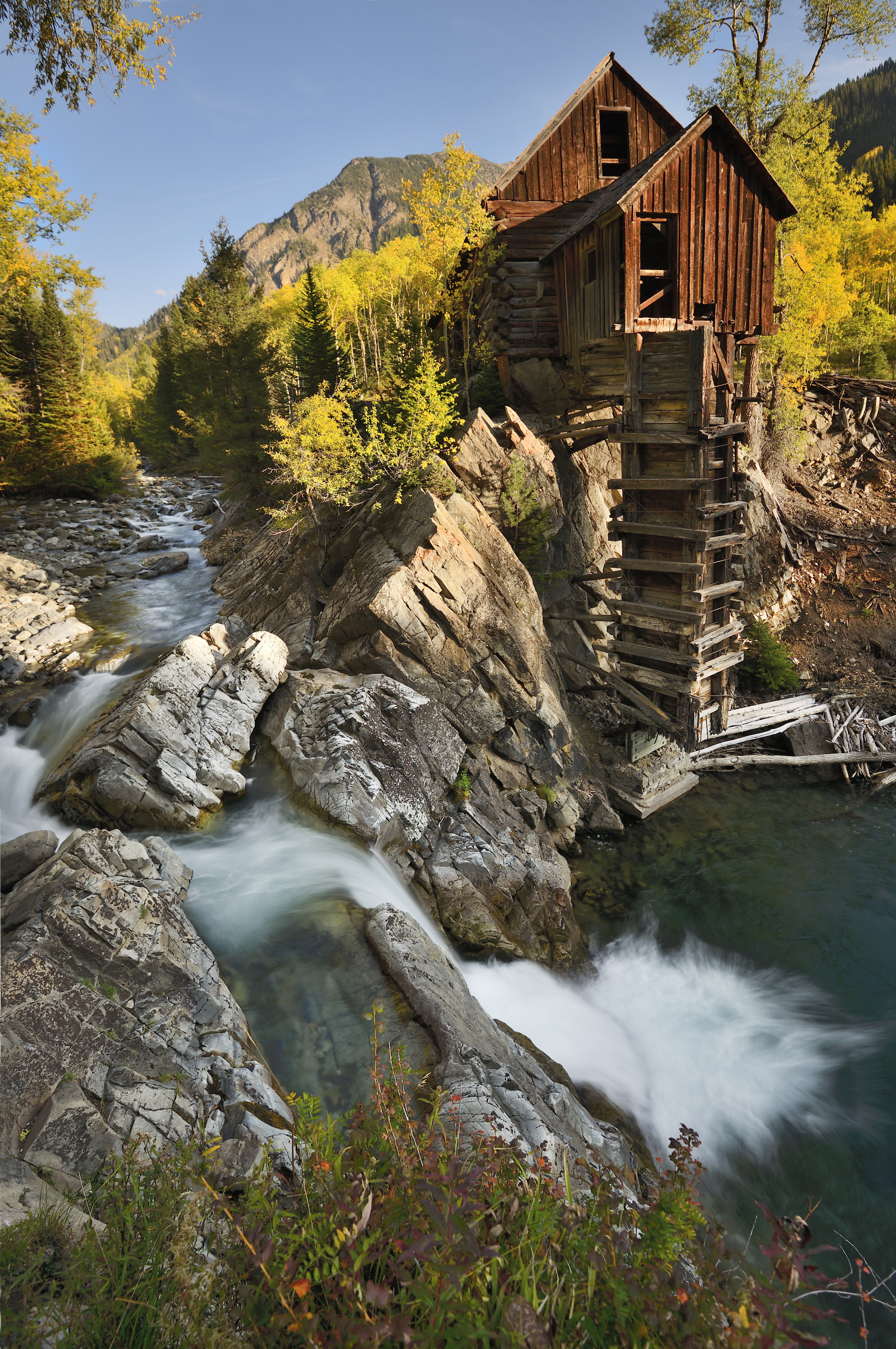 Crystal Mill, an 1892 wooden powerhouse located on an outcrop above the Crystal River in Crystal, Gunnison County, Colorado, United States.